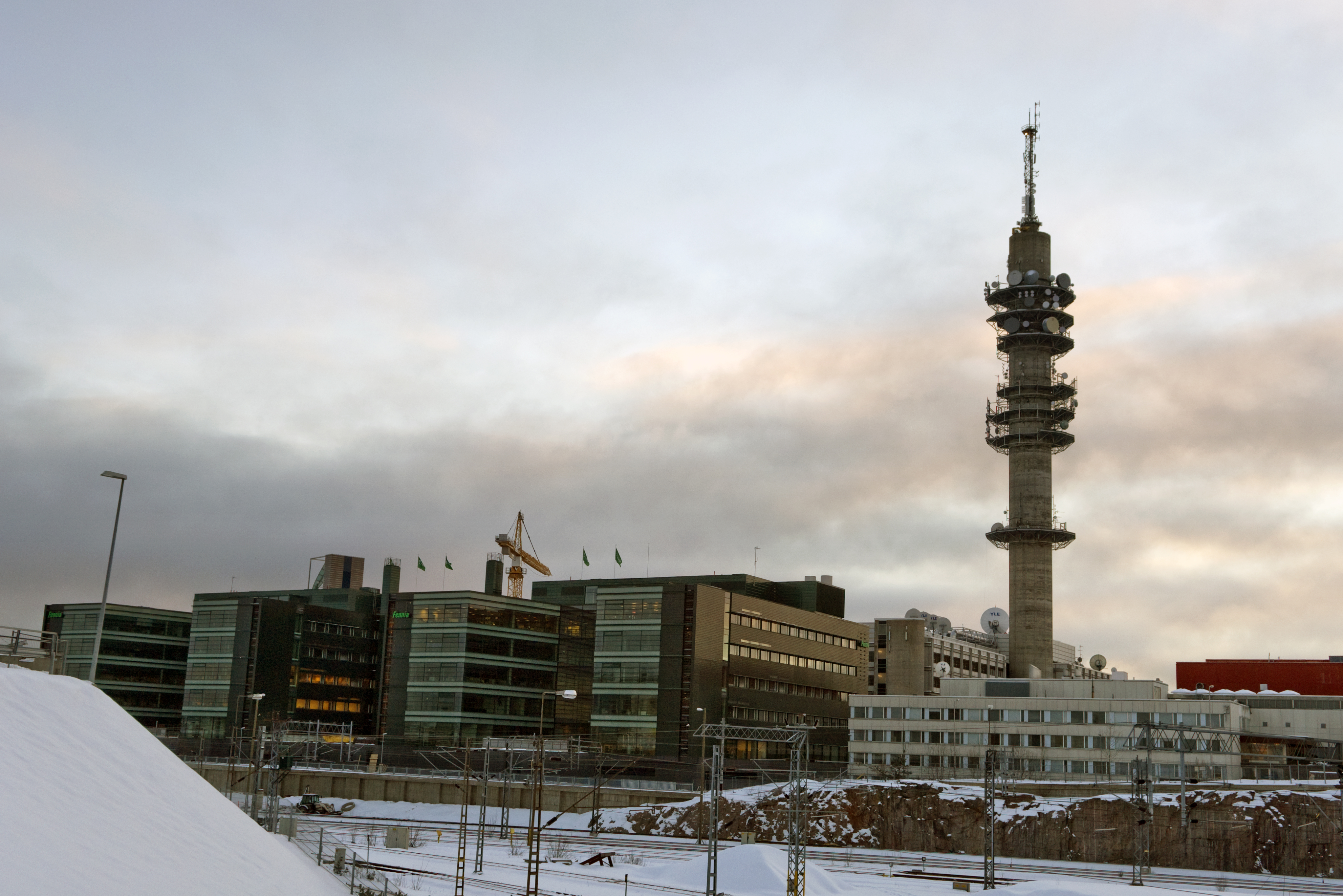 The YLE transmission tower and the headquarters of the Fennia Group in Pasila, Helsinki, Finland.